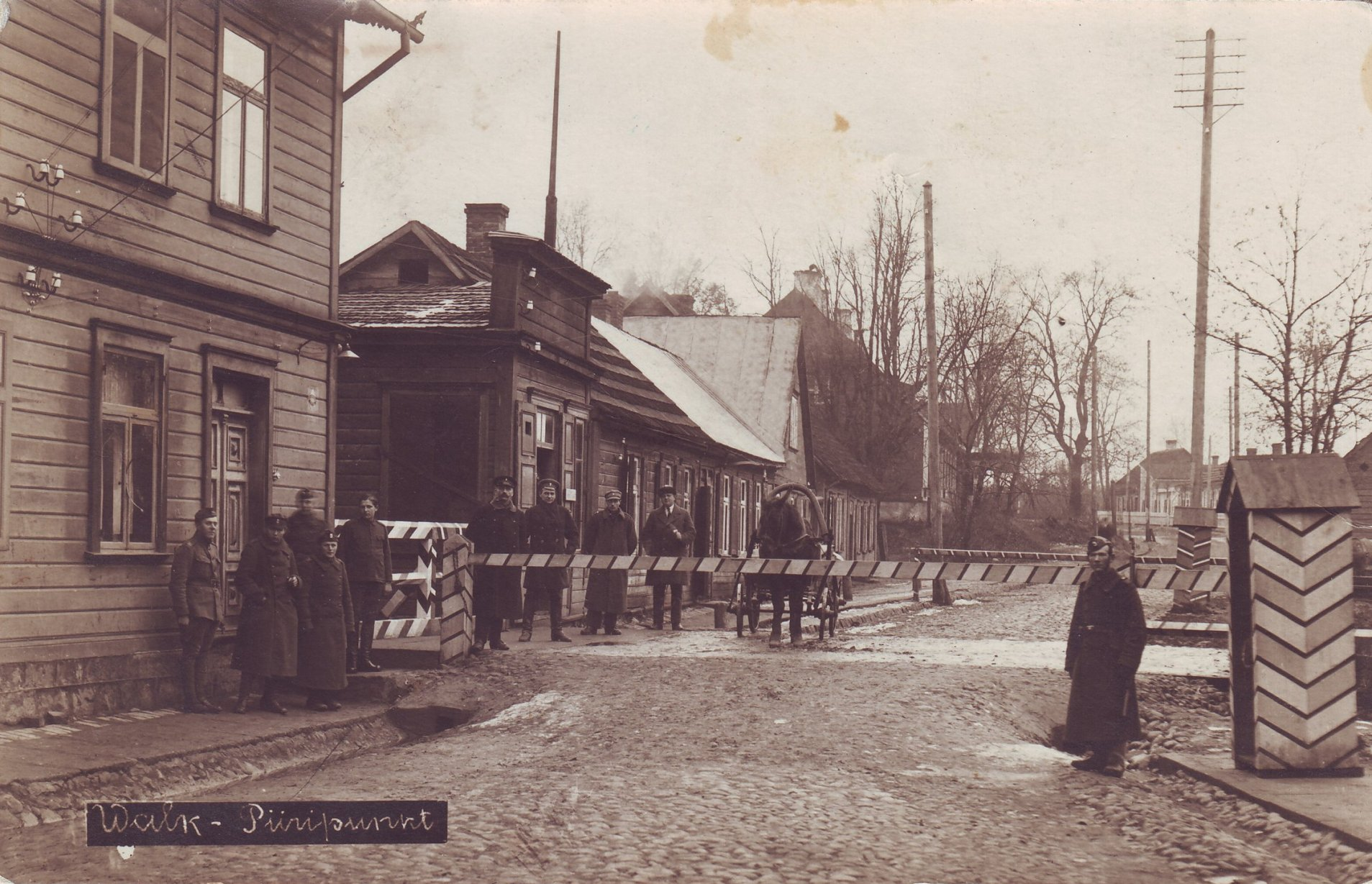 The border between Estonian Valga and Latvian Valka, with Estonian and Latvian customs officers. Postcard printed before 1923.